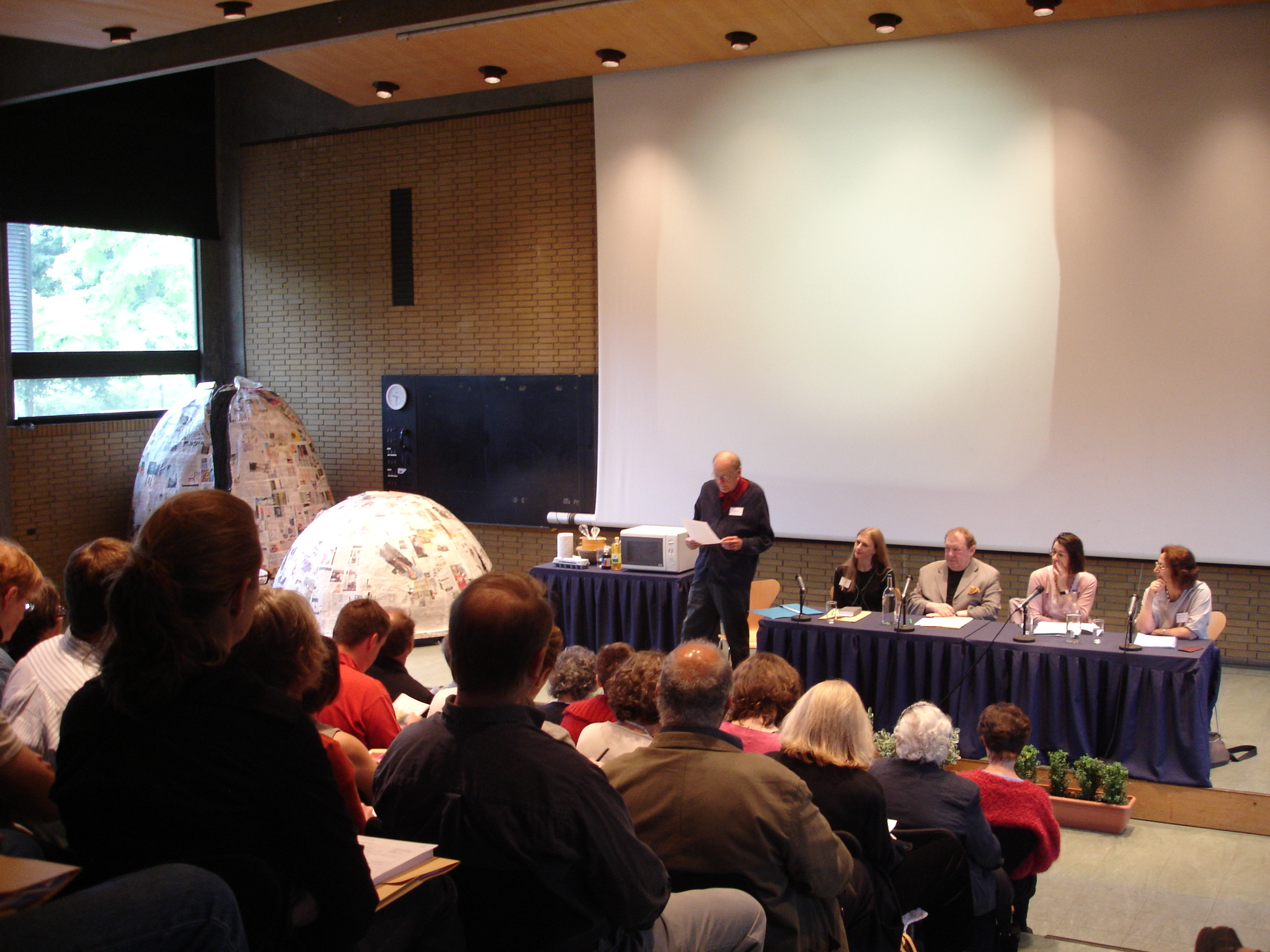 Oxford Symposium on Food & Cookery, 2007. Held at St Catherine's college. Harlan Walker (standing), Jane Levi, Paul Levy, Marina Warner, Claudia Roden. The subject was Eggs.